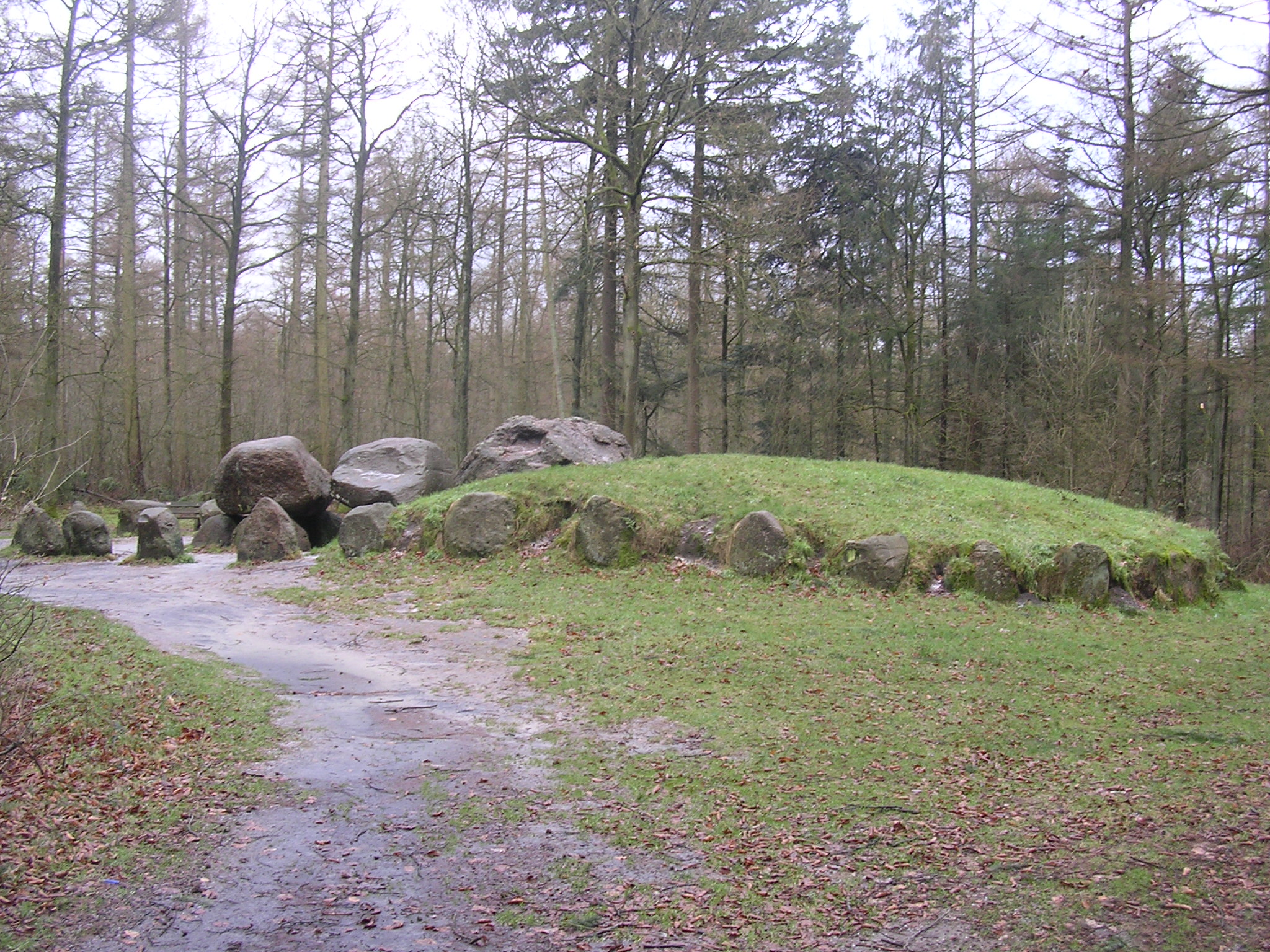 Also known as De Papeloze Kerk, beause of historical open air calvinist church meetings here